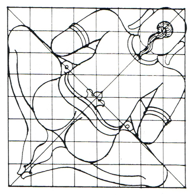 Vaastu Purusha Visão Dorsal